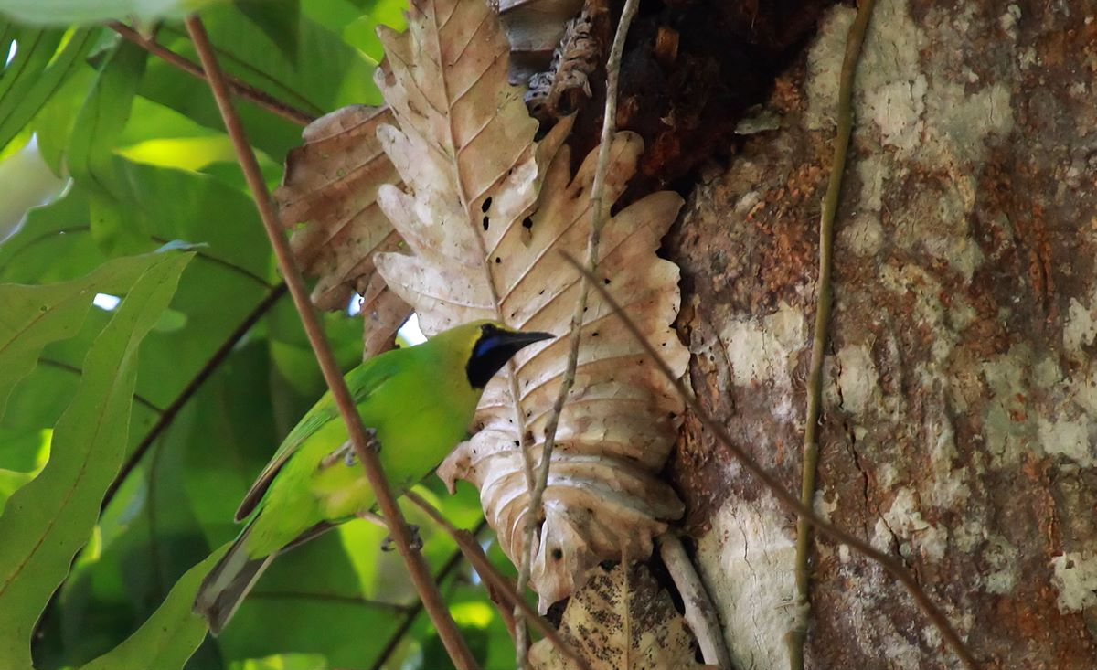 A male Jerdon's Leafbird at Bodhinagala Forest Reserve, Sri Lanka.